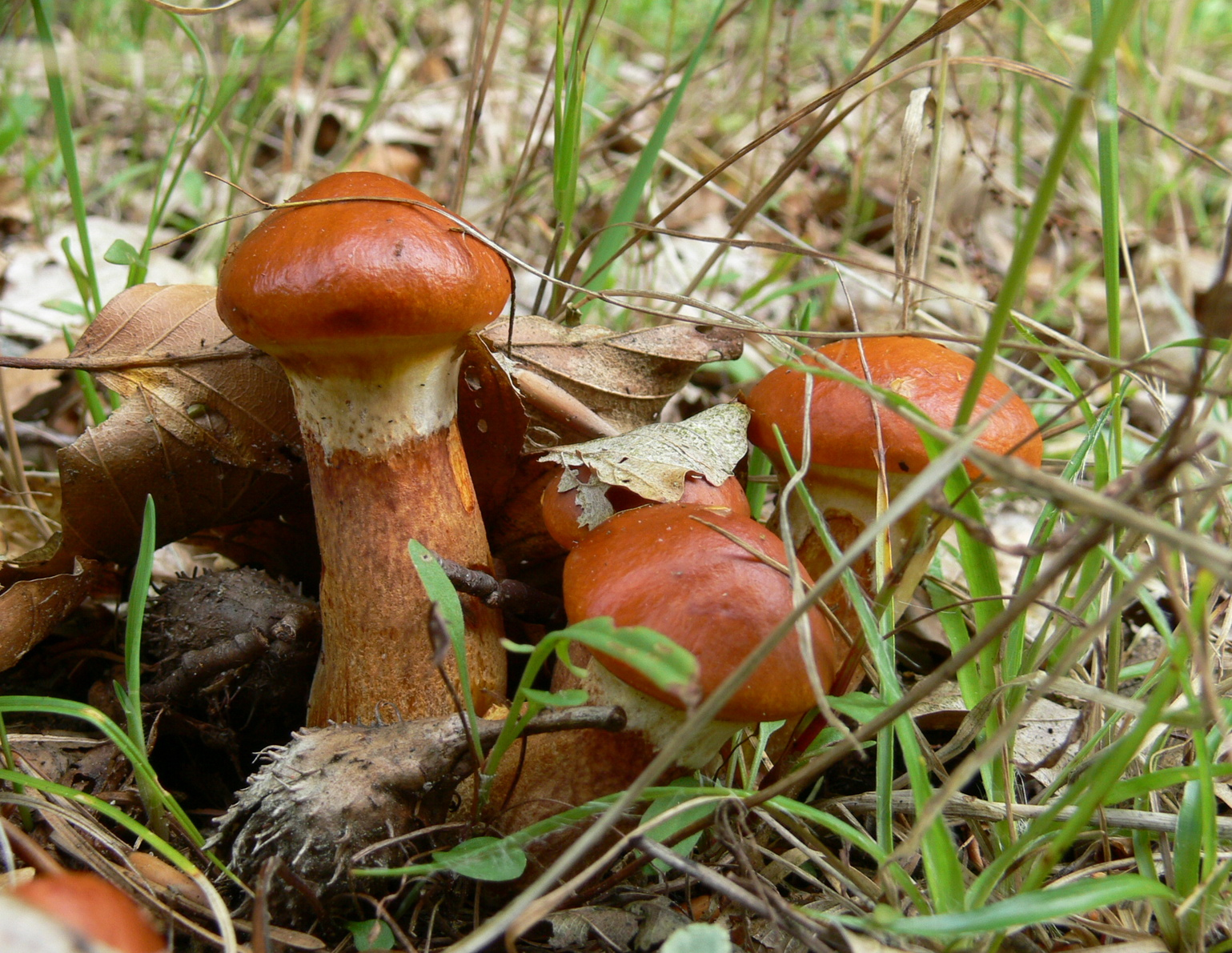 Suillus grevillei in the Rostocker Heide (Germany)